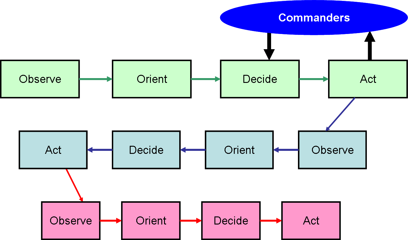 Interaction of Boyd OODA loop with command